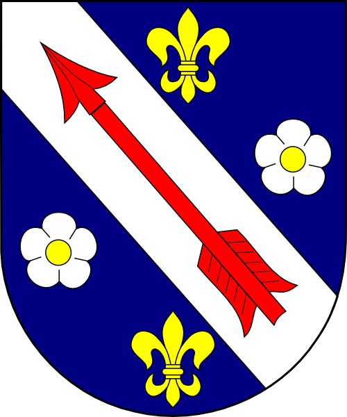 Coat of arms (shield only) of György Klimó (Juraj Klimo), bishop of Pécs, Hungary (1751 - 1777).